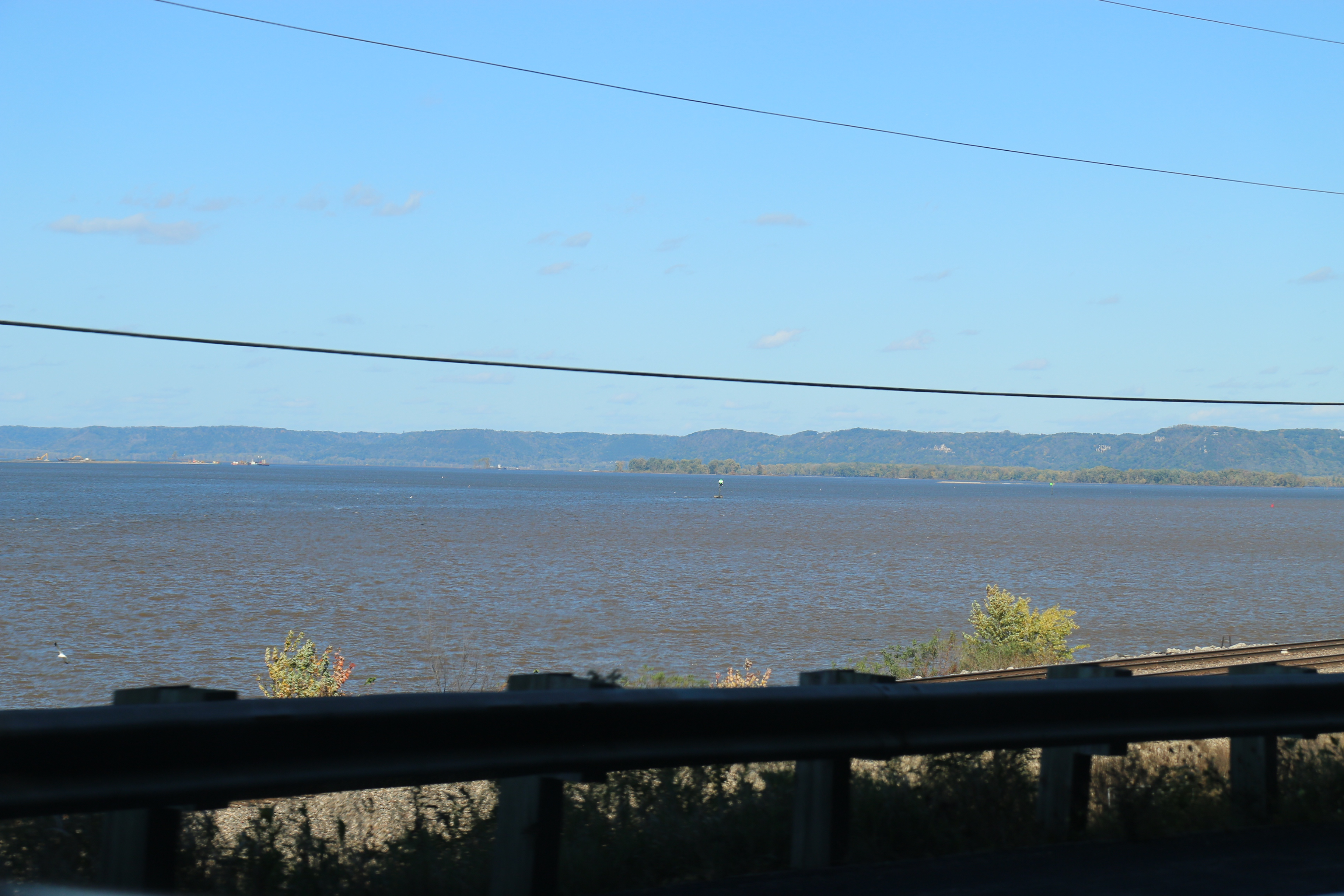 Lake Winneshiek on Wisconsin Highway 35 / Great River Road